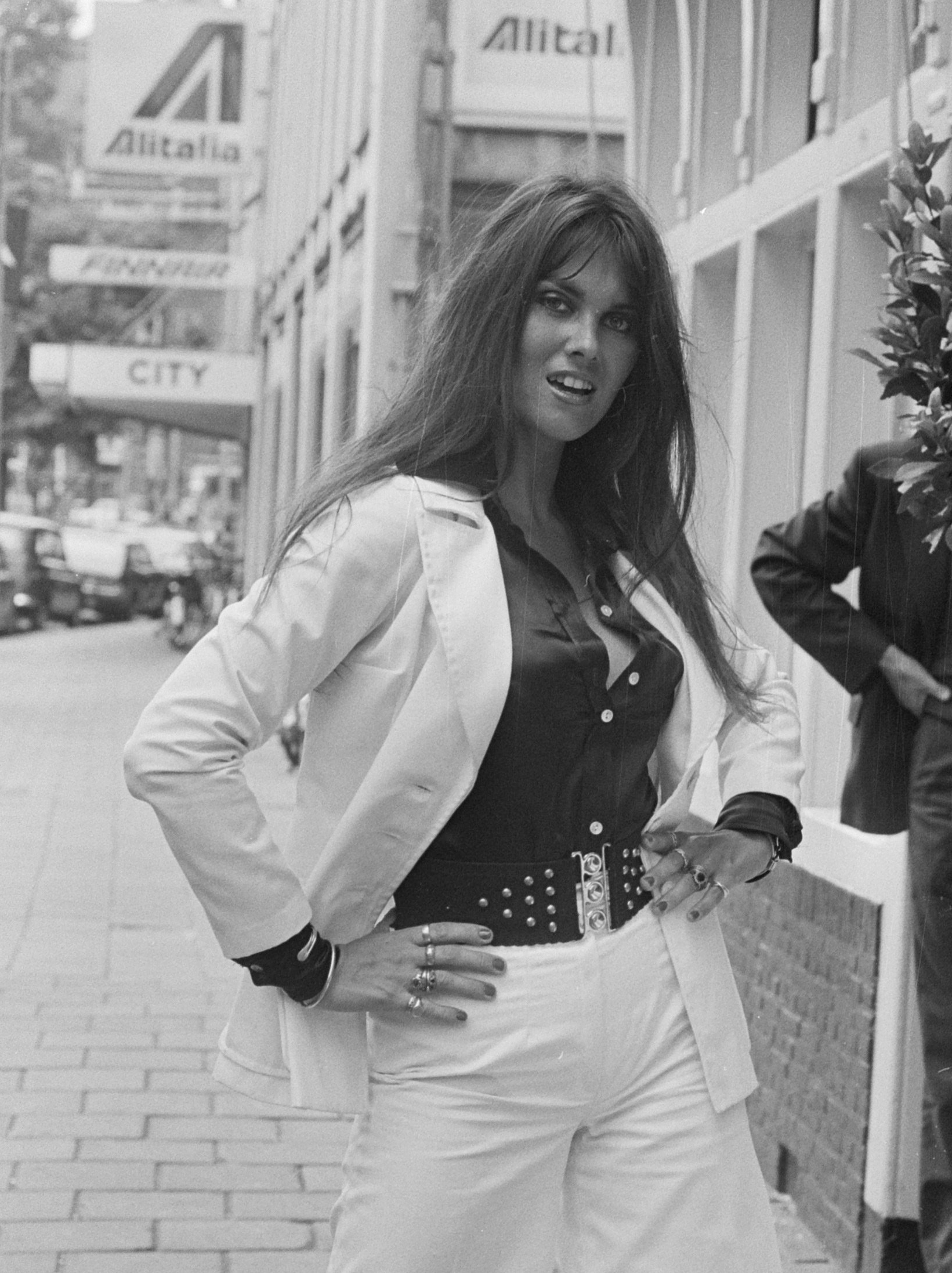 Half length portrait of actress Caroline Munro.